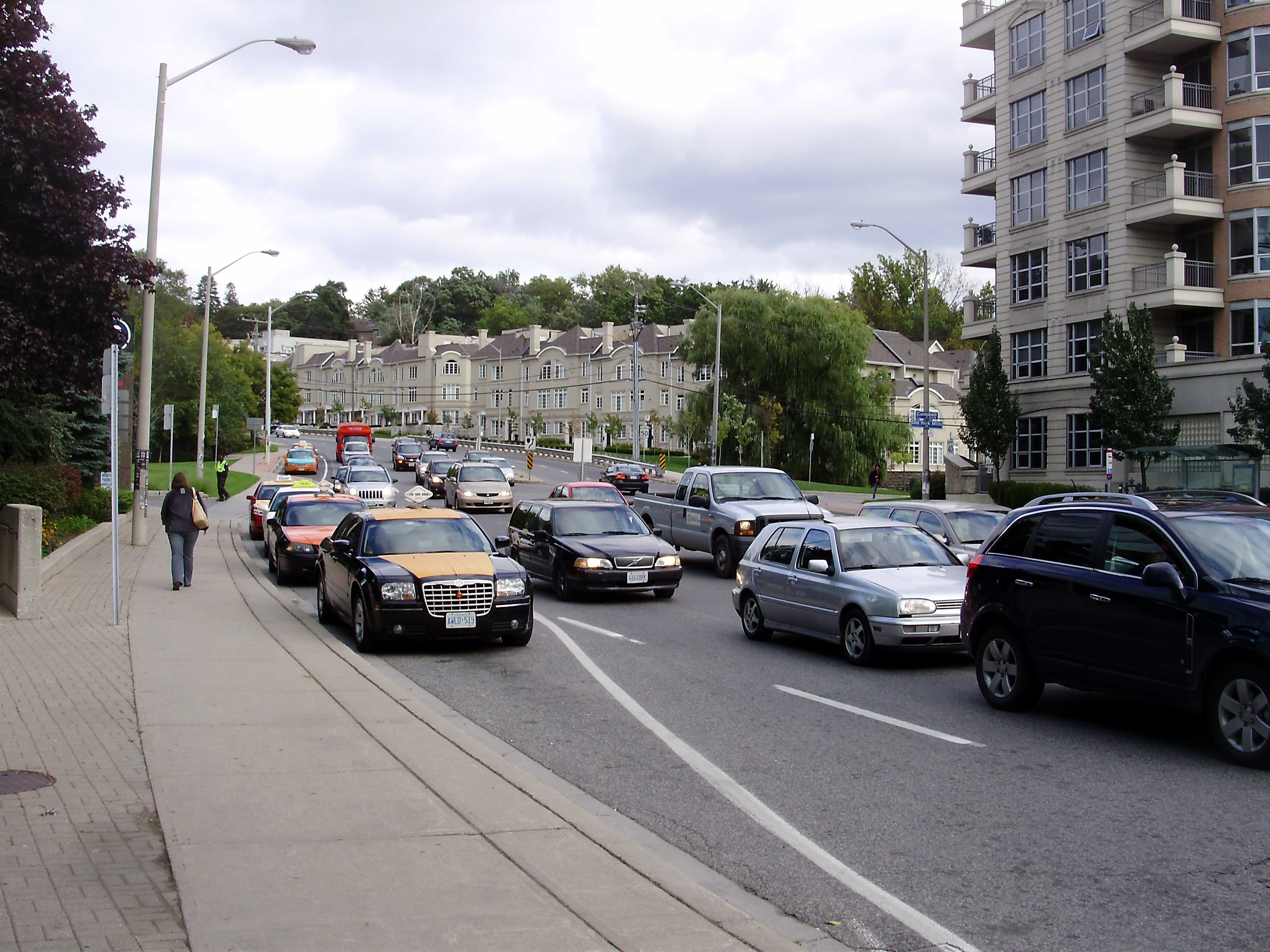 Traffic backs up along York Mills Road during the afternoon rush hour in the York Mills neighbourhood of North York, Ontario, Canada.